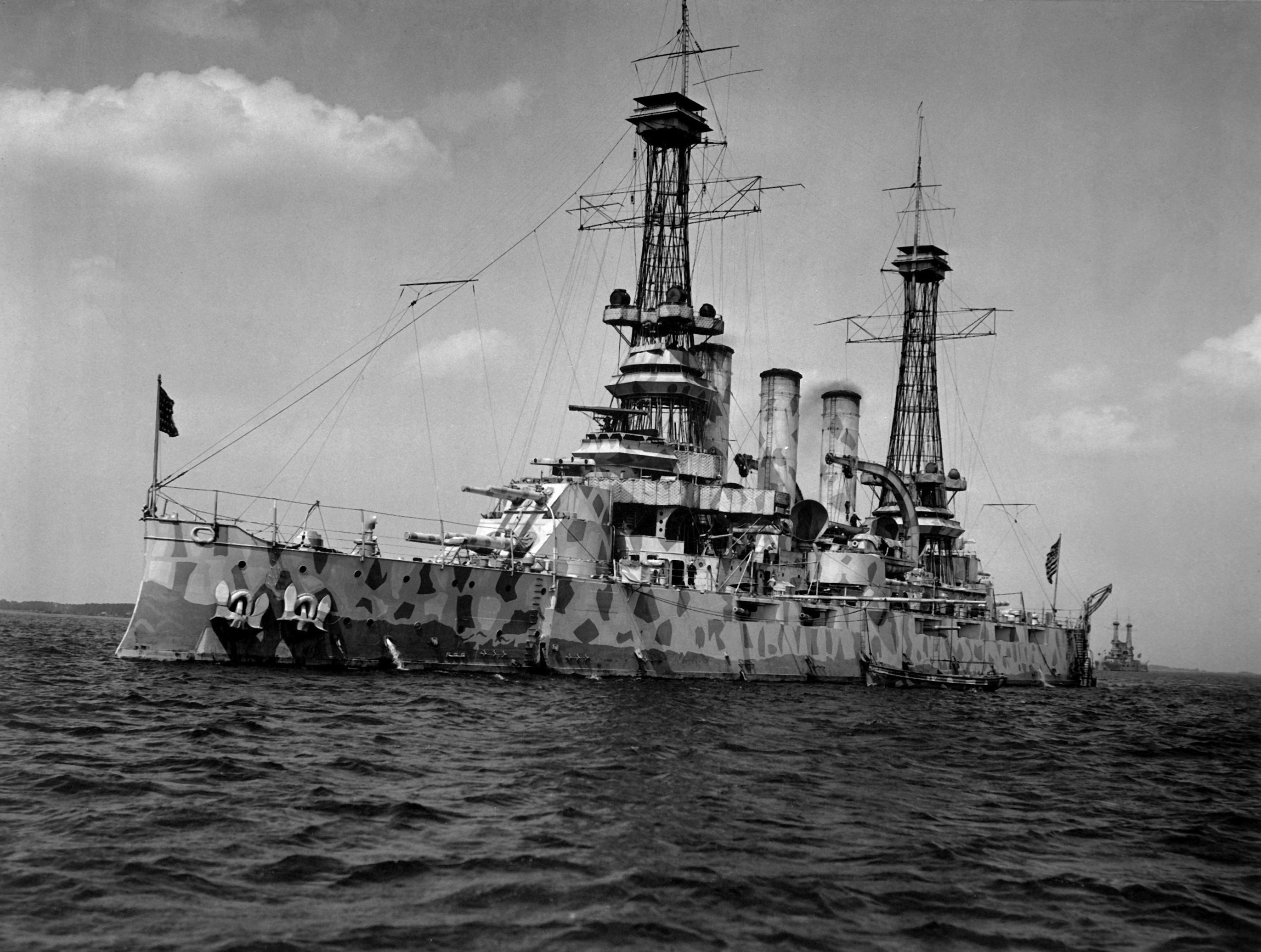 The USS New Jersey (BB-16) in camouflage coat.